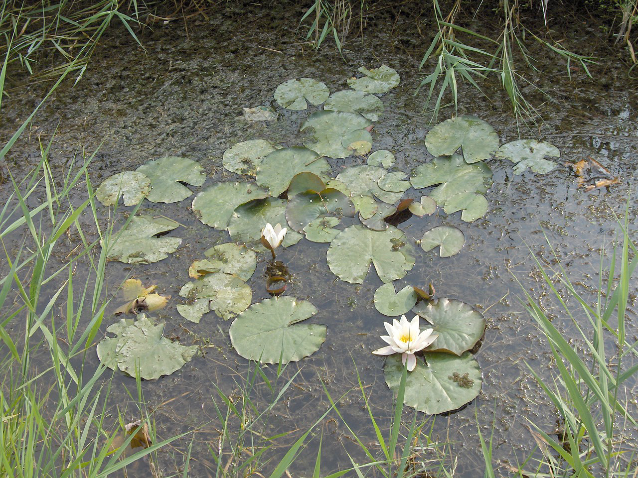 Species Nymphaea alba Family Nymphaeaceae